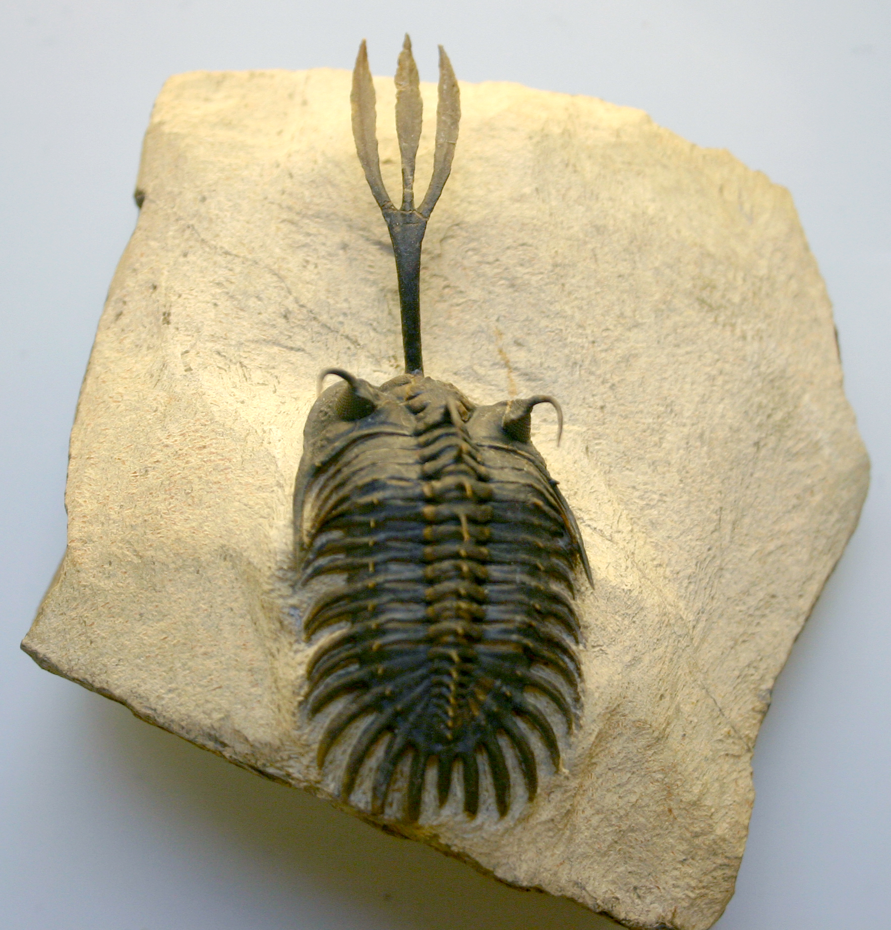 Walliserops trifurcatus from Djebel Oufaten, Morocco